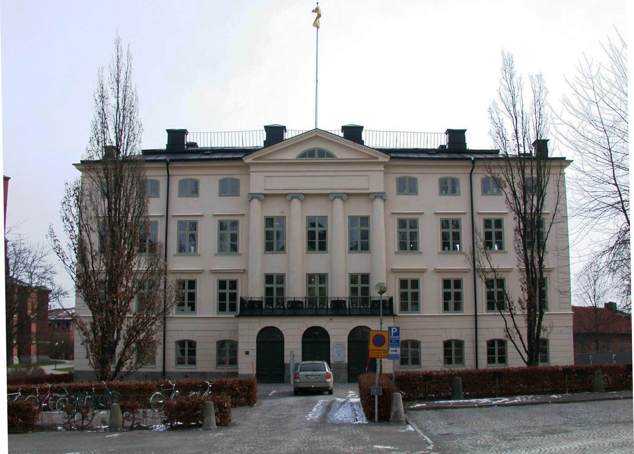 The Dean's house, Uppsala, Sweden